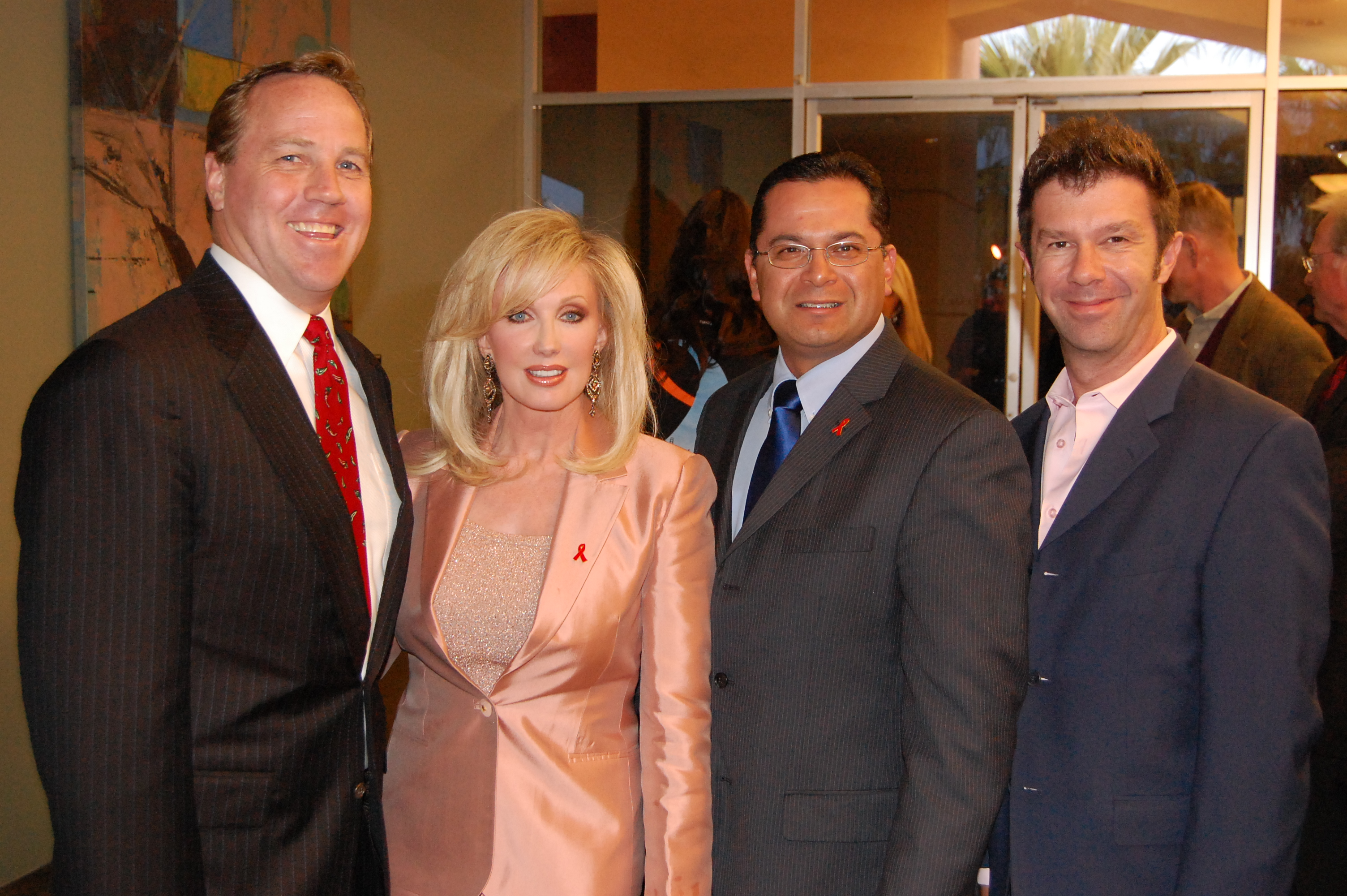 Mayor Pougnet, Morgan Fairchild, State Assemblyman Manny Perez, and Jim Casey.